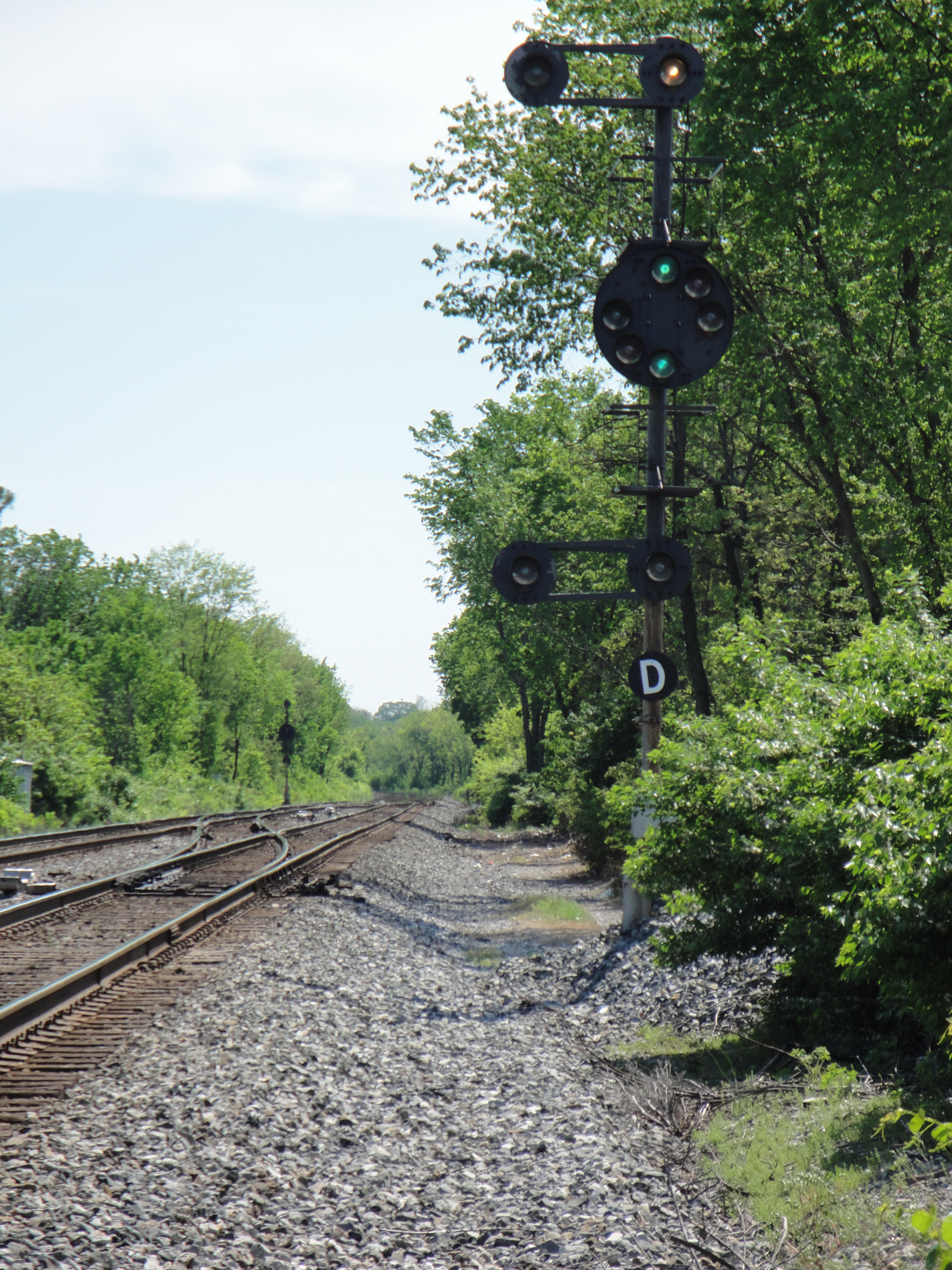 View of Ammendale interlocking and color position light (CPL) signal on CSX Capital Subdivision in Beltsville, Maryland. Looking south (west) towards Washington, D.C. The CPL signal, manufactured by General Railway Signal Co., is displaying the "Proceed" indication.